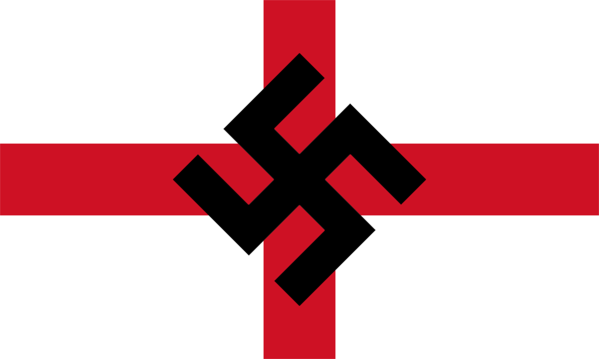 The flag of the Protectorate of Albion, as described in the Stephen Baxter book Weaver